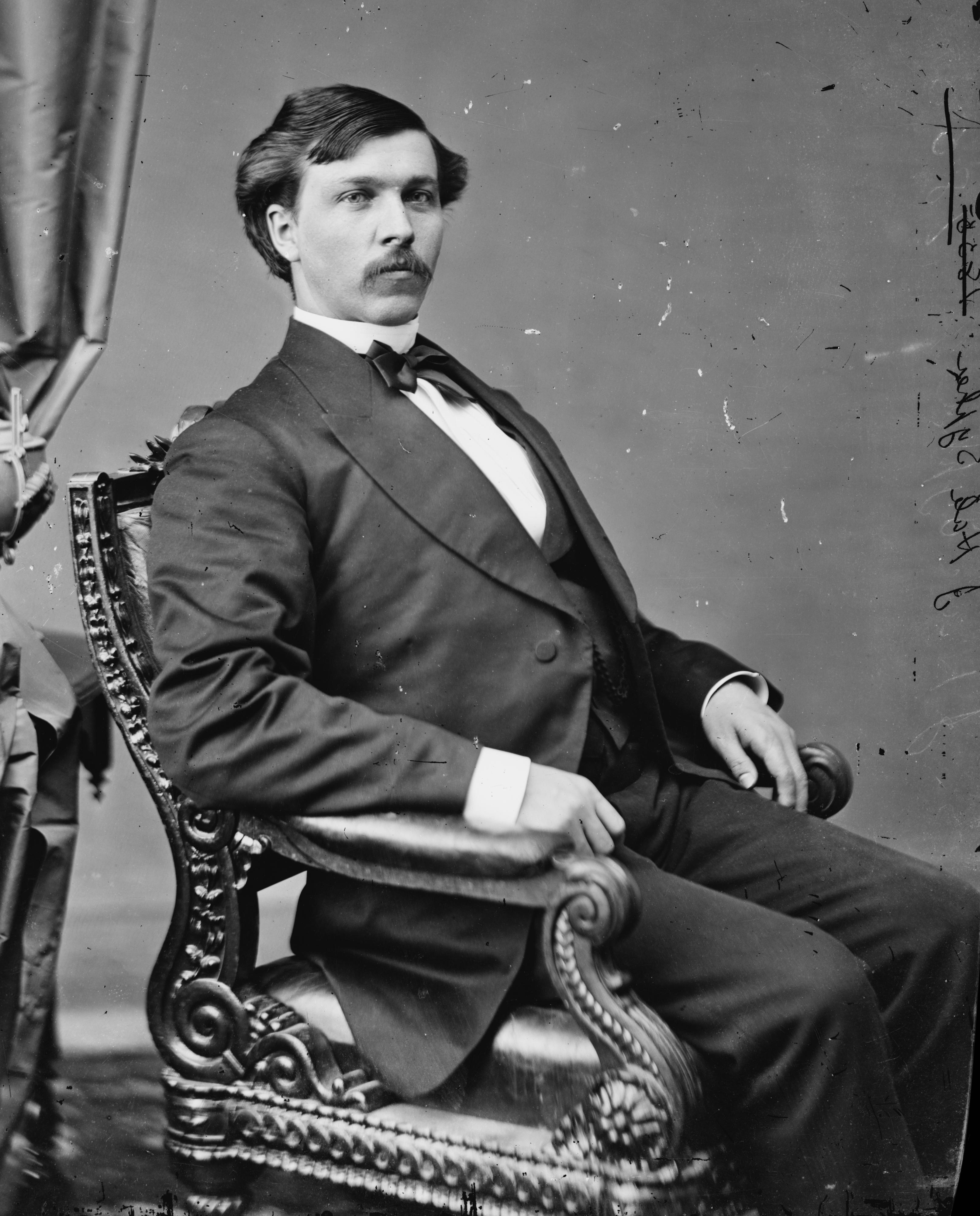 Jacob Hale Sypher. Library of Congress description: "Hon. Jacob Hale Sypher of La."